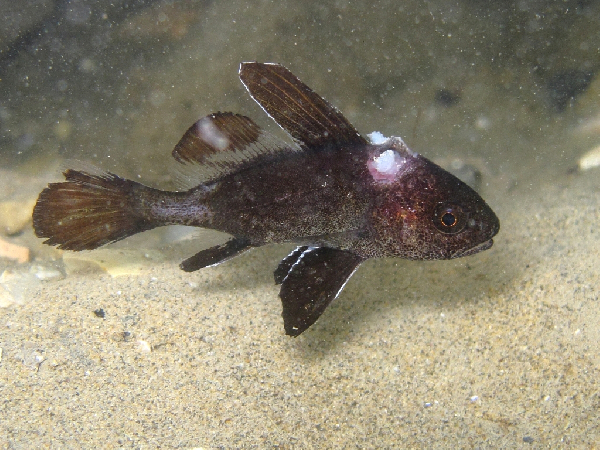 Juvenile Sciaena umbra photographed in Bibiano, Italy. Lenght, 8 cm.